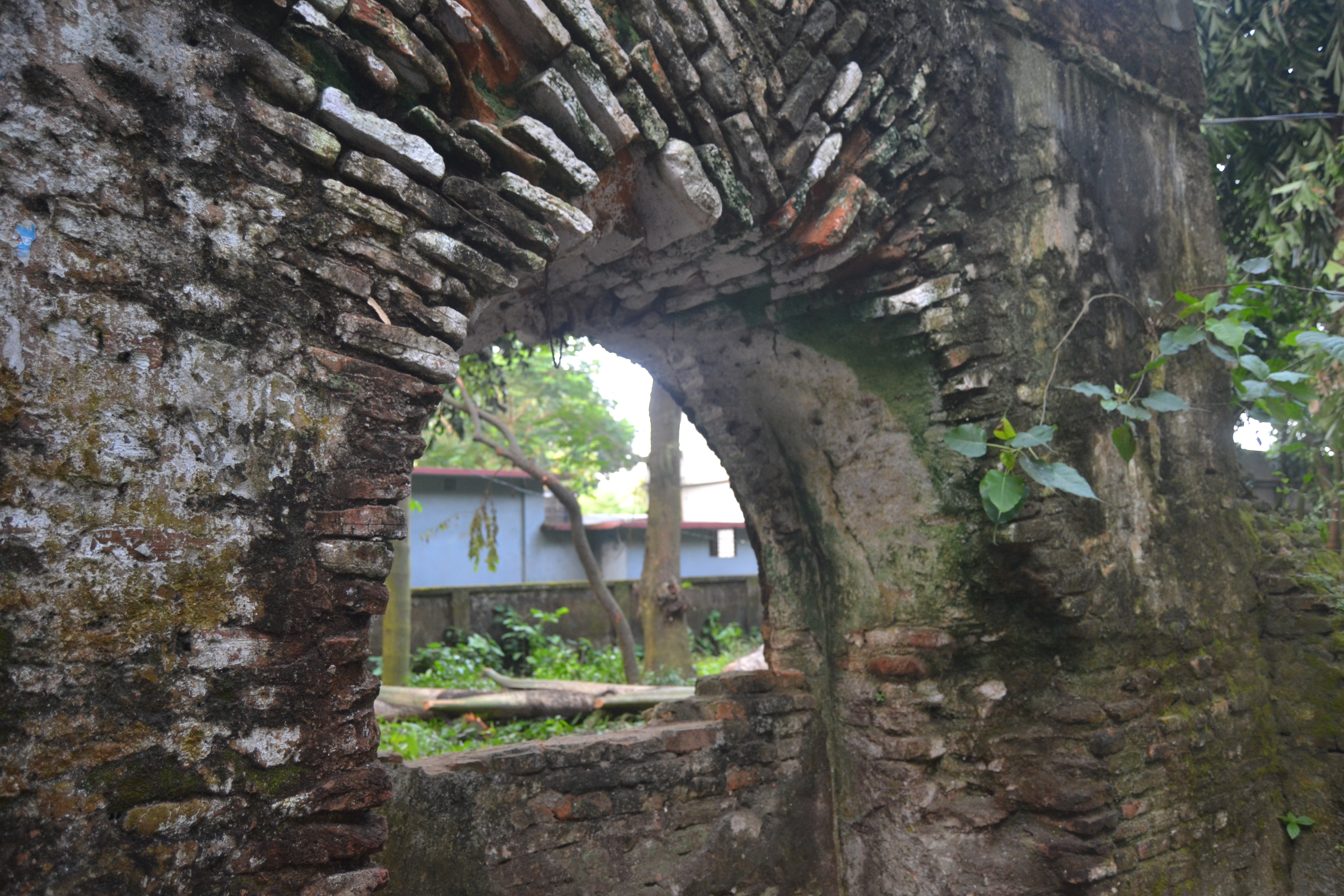 Ancient Mosque Adjacent House of Begum Rokeya